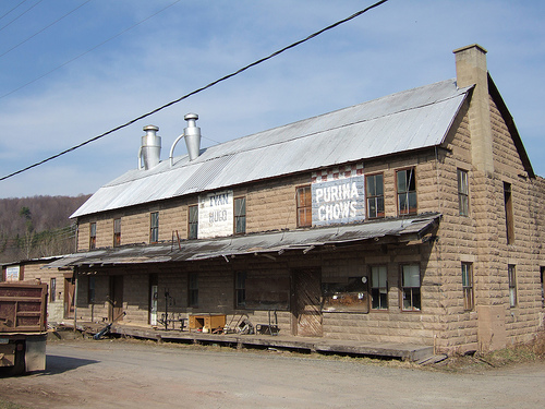 Building near the train station